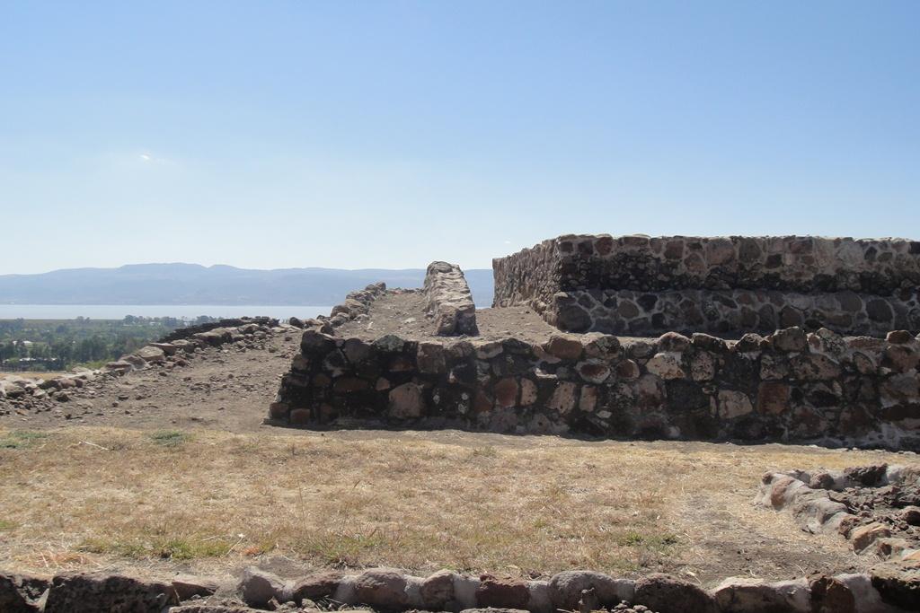 Template:Huandacareo, Main Structure, temple eastern side